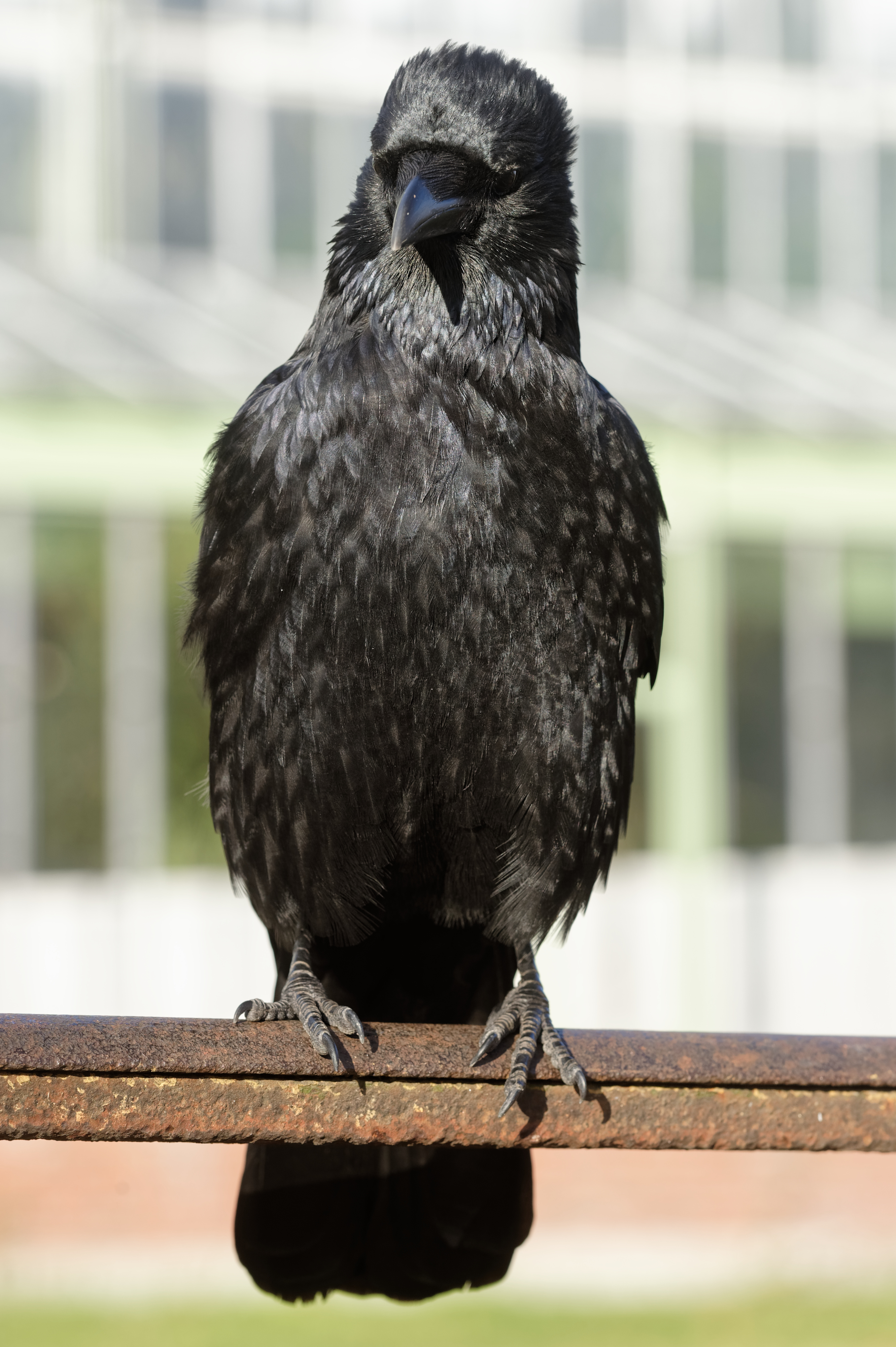 Bob, an adult male Carrion Crow (Corvus corone), in territorial display at the Jardin des Plantes of Paris.